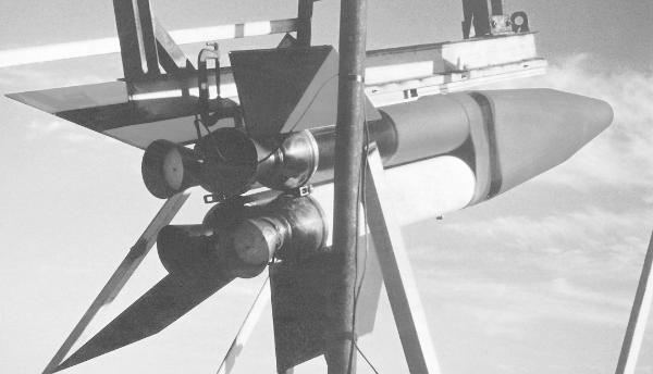 Experimental NOTS 1 (Project Pilot) launch vehicle on ground launcher ready for firing, June 1958. US Navy photo